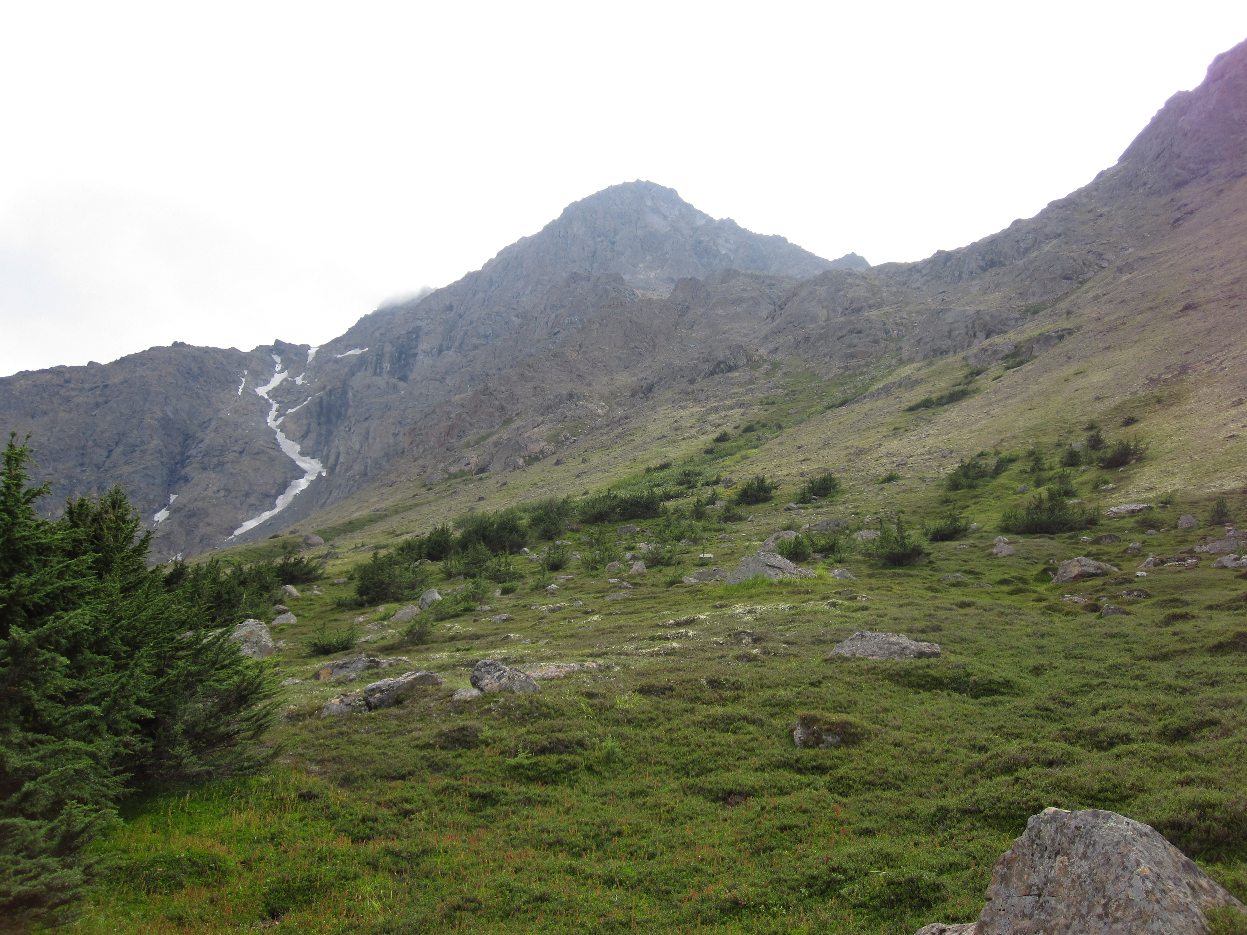 Ptarmign Peak as seen from Powerline Pass, Chugach Park near Anchorage, Alaska